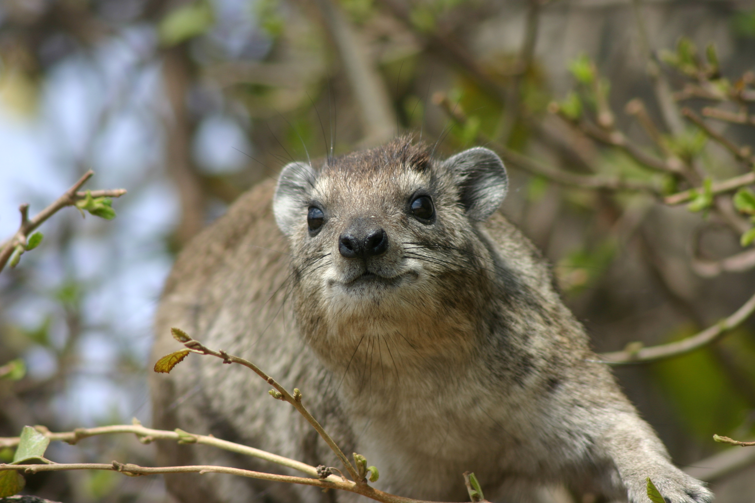 Yellow-spotted Rock Hyrax in Serengeti National Park, Tanzania